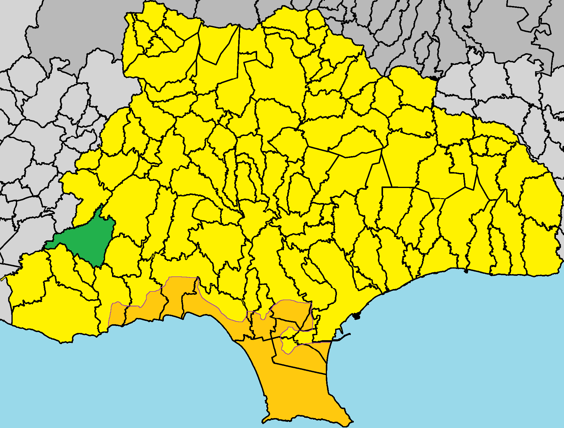 Anogyra in Limassol District.